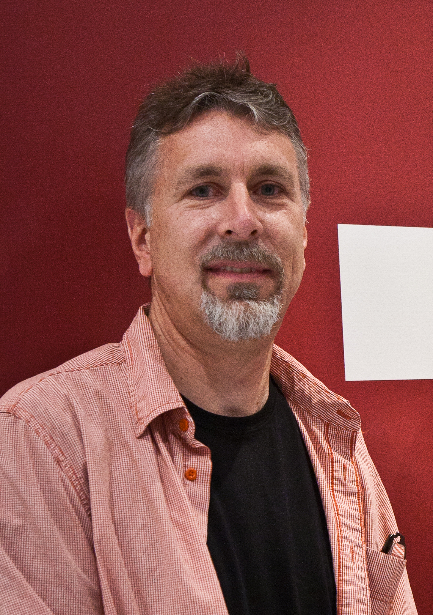 VFS welcomed Oscar-nominated sound designer Craig Berkey (X-Men: First Class, The Tree of Life) for a special visit and mentoring session with Sound Design for Visual Media students. Craig received three Academy Award nominations for his work on the recent Coen brothers’ films No Country for Old Men and True Grit. Find out more about VFS’s one-year Sound Design for Visual Media program at